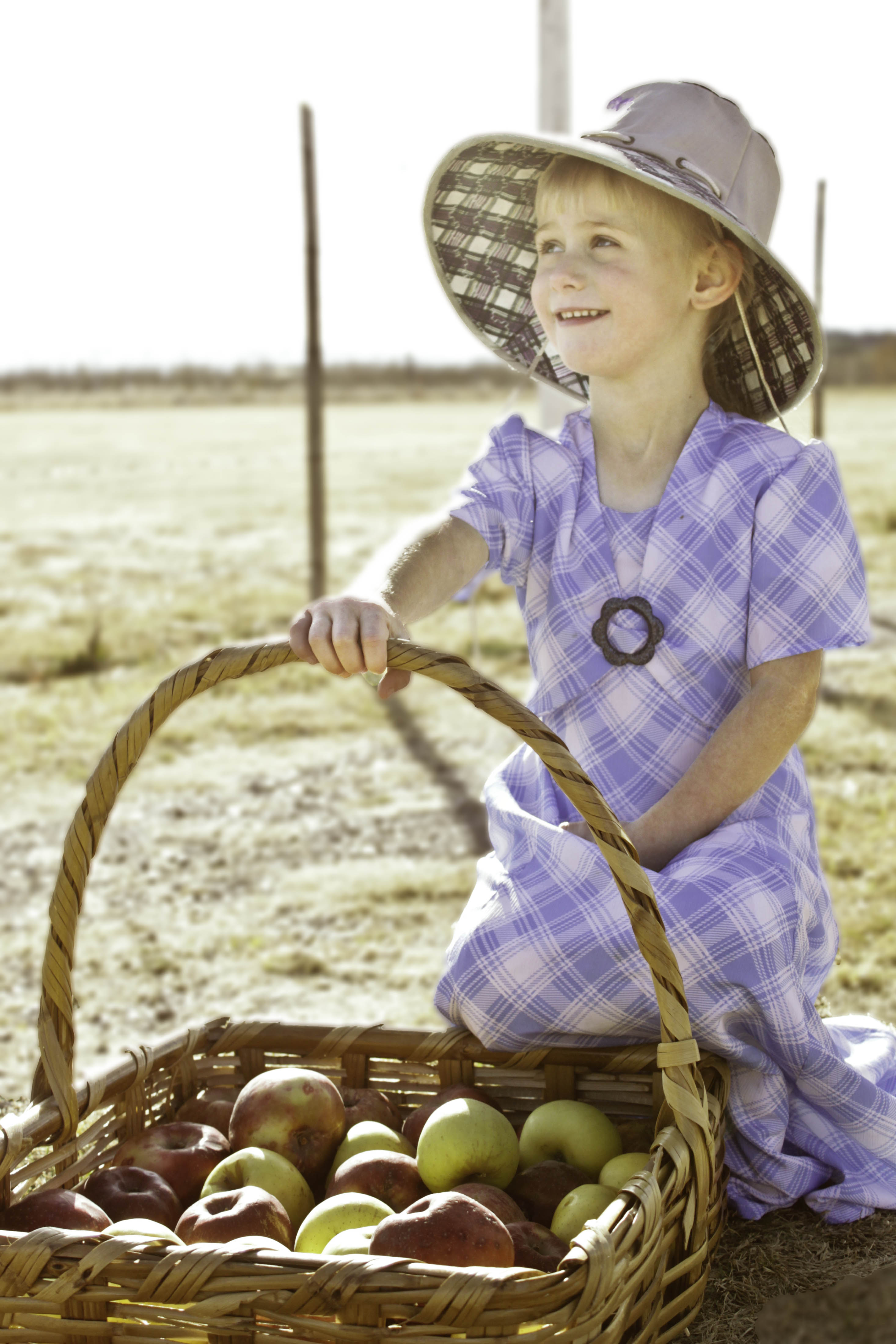 A Mexican Mennonite child in Cuauhtémoc, Chihuahua State. The smiling girl is holding a basket with red and green apples.